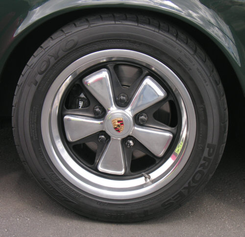 Wheel from Porsche 911 (Fuchs). Photo taken on Nürburgring.